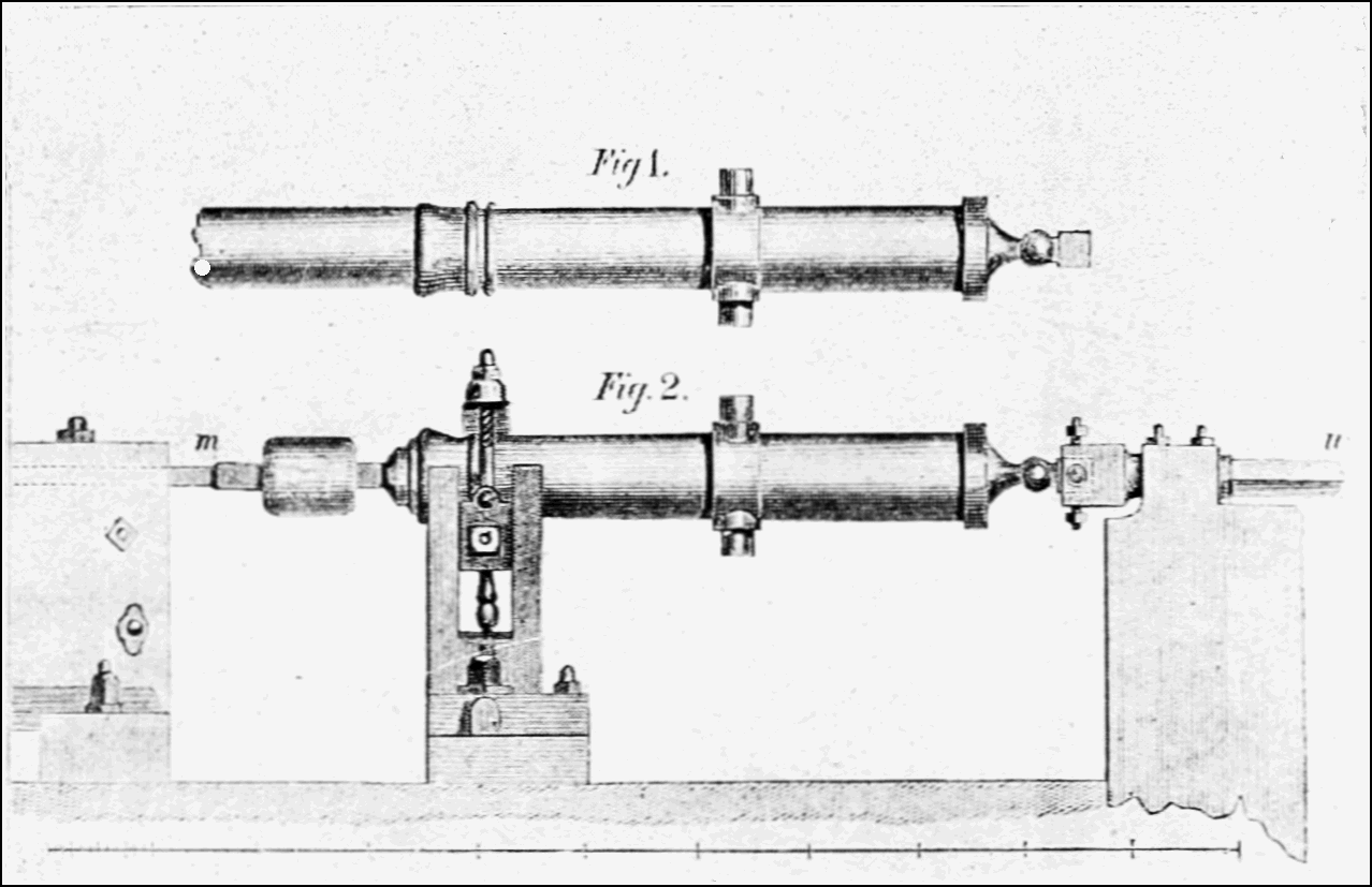 Rumford experiment of the nature of heat